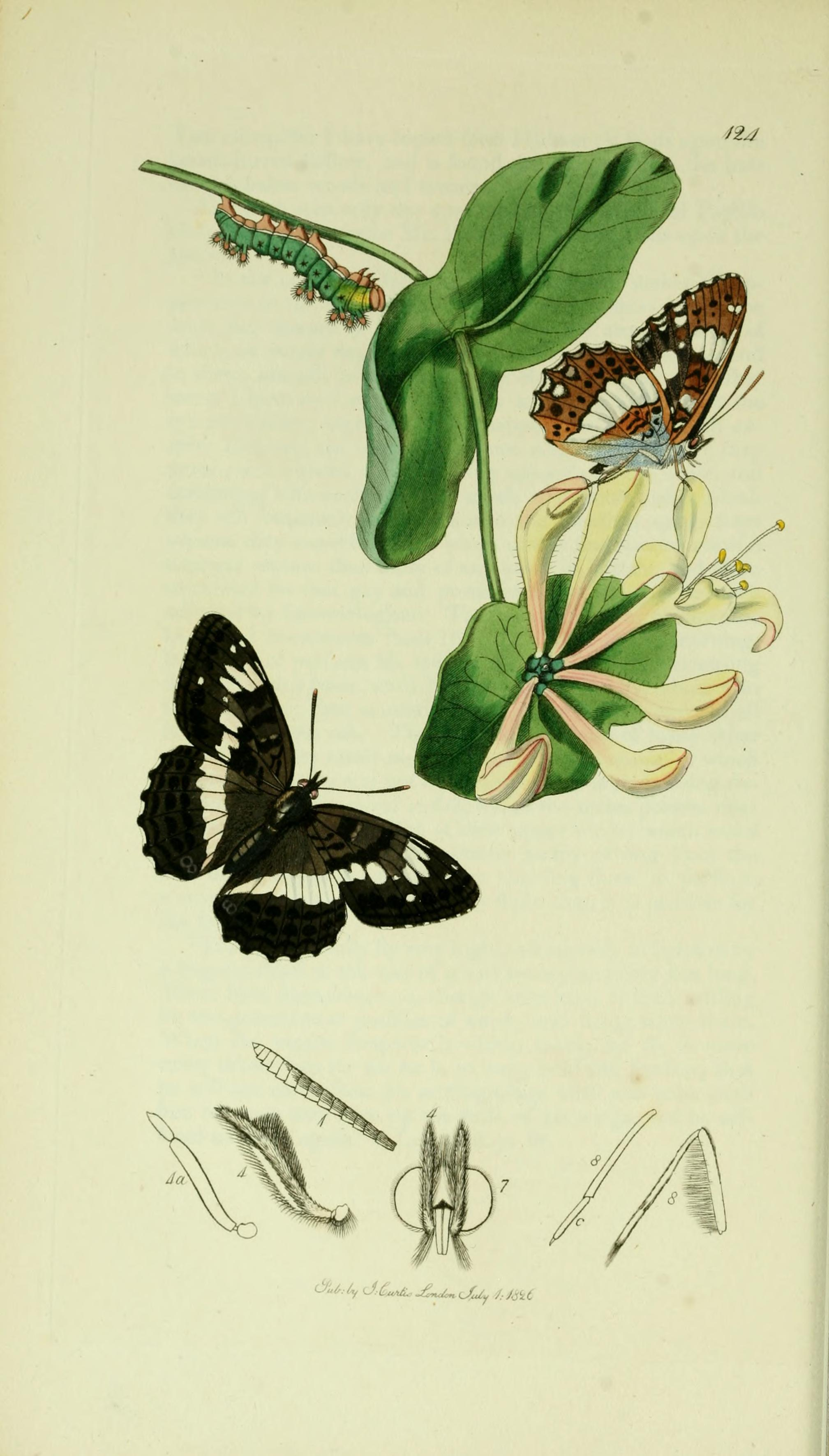 An illustration from British Entomology by John Curtis. Limenitis camilla Ladoga (Limenitis) camilla (White Admiral).